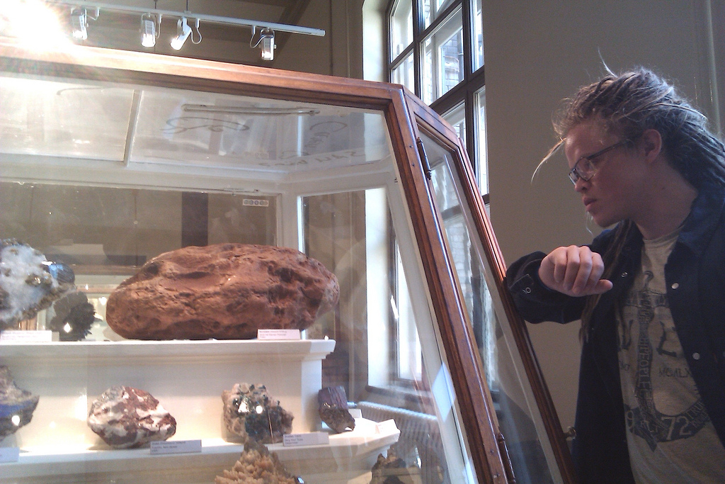 This is one of the largest pieces of Baltic amber ever found (9,7 kg). The piece is stored at the Natural History Museum in Berlin.